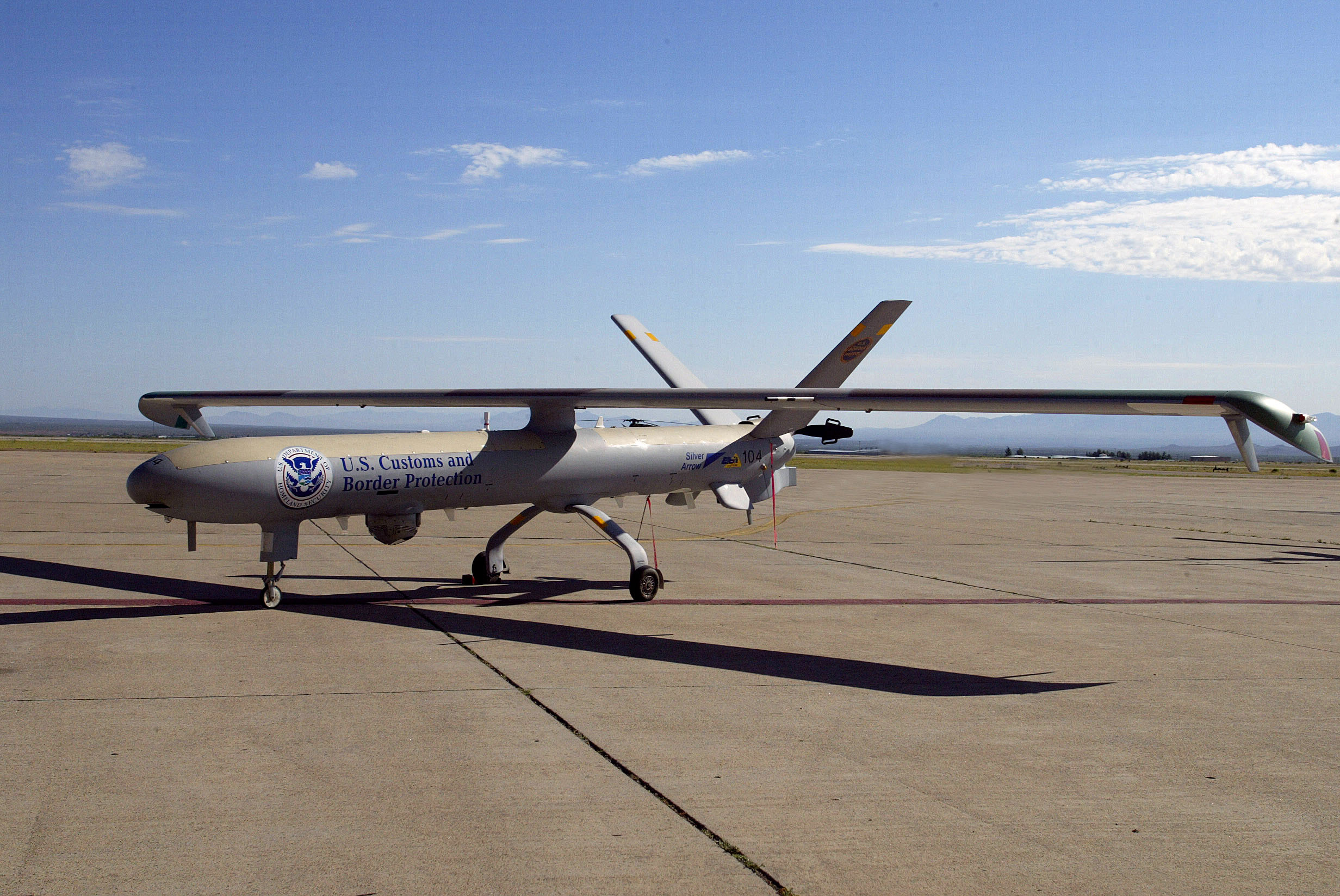 An Hermes 450 Unmanned Aerial Vehicle (UAV) of U.S. Customs and Border Protection.